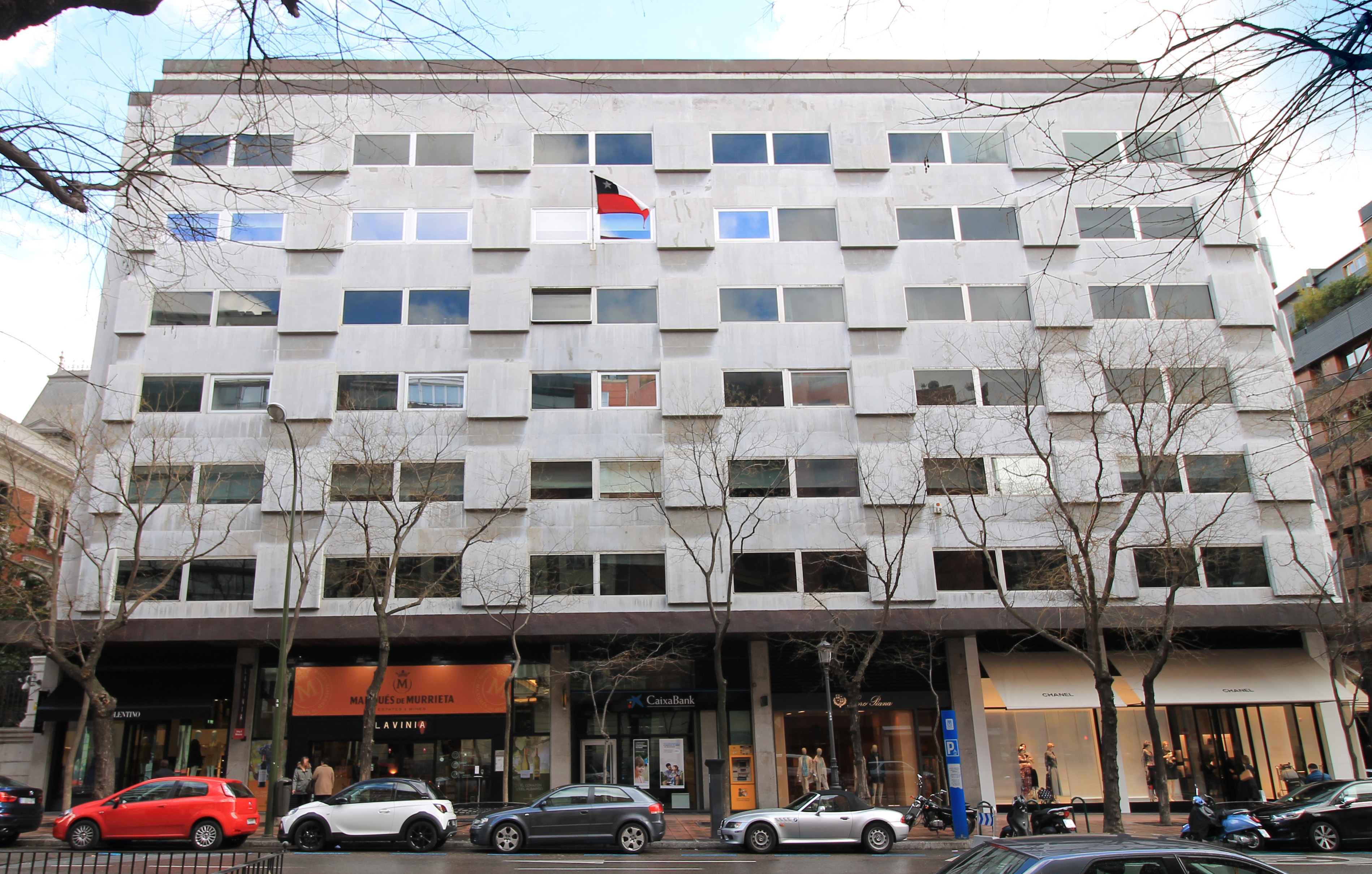 Building at 88 Calle de Lagasca (street) in Madrid (Spain). It is home to the Chilean Embassy in Spain.